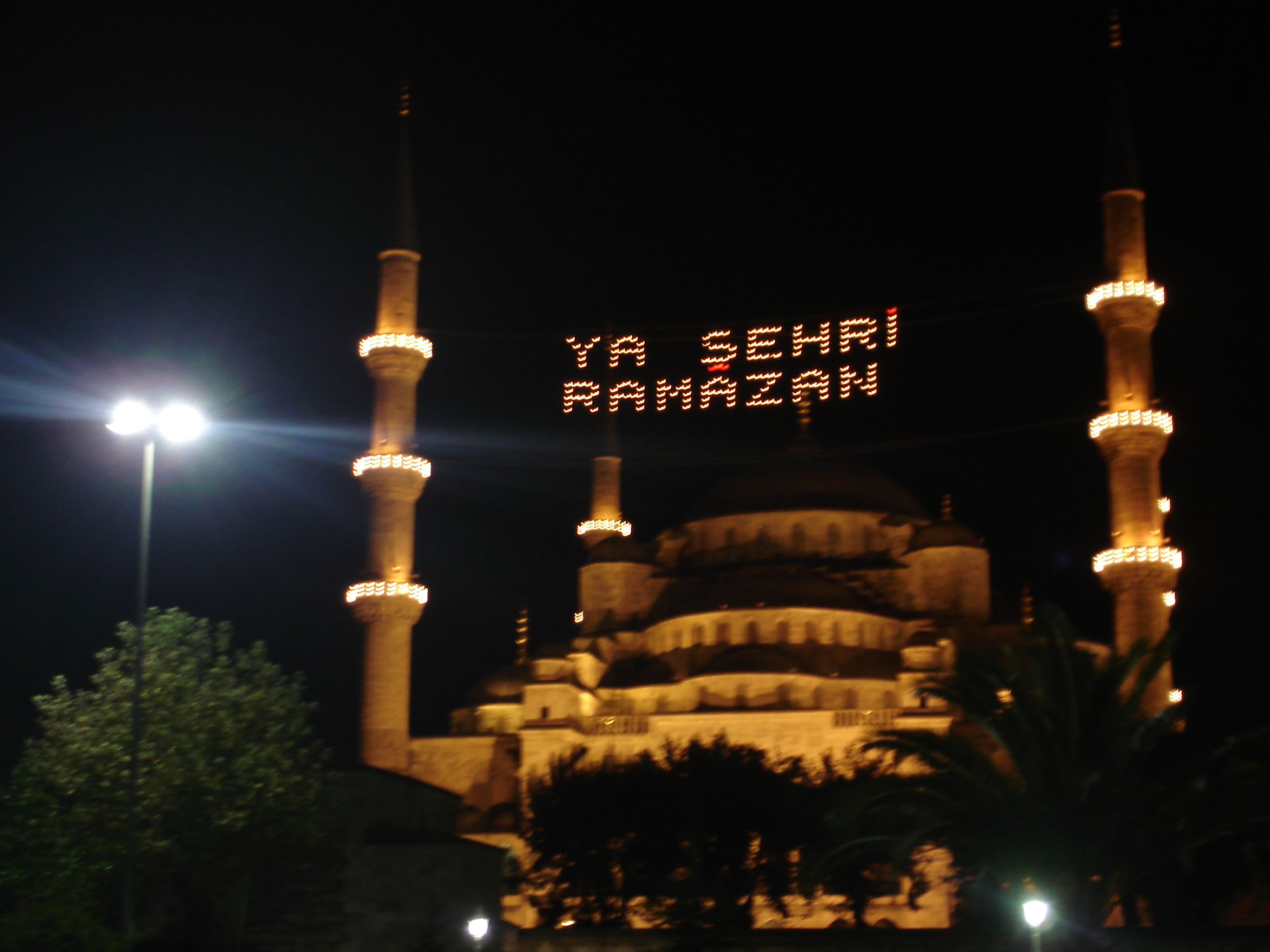 Blue Mosque during Ramadan (Sultanahmet, Istanbul/TR)